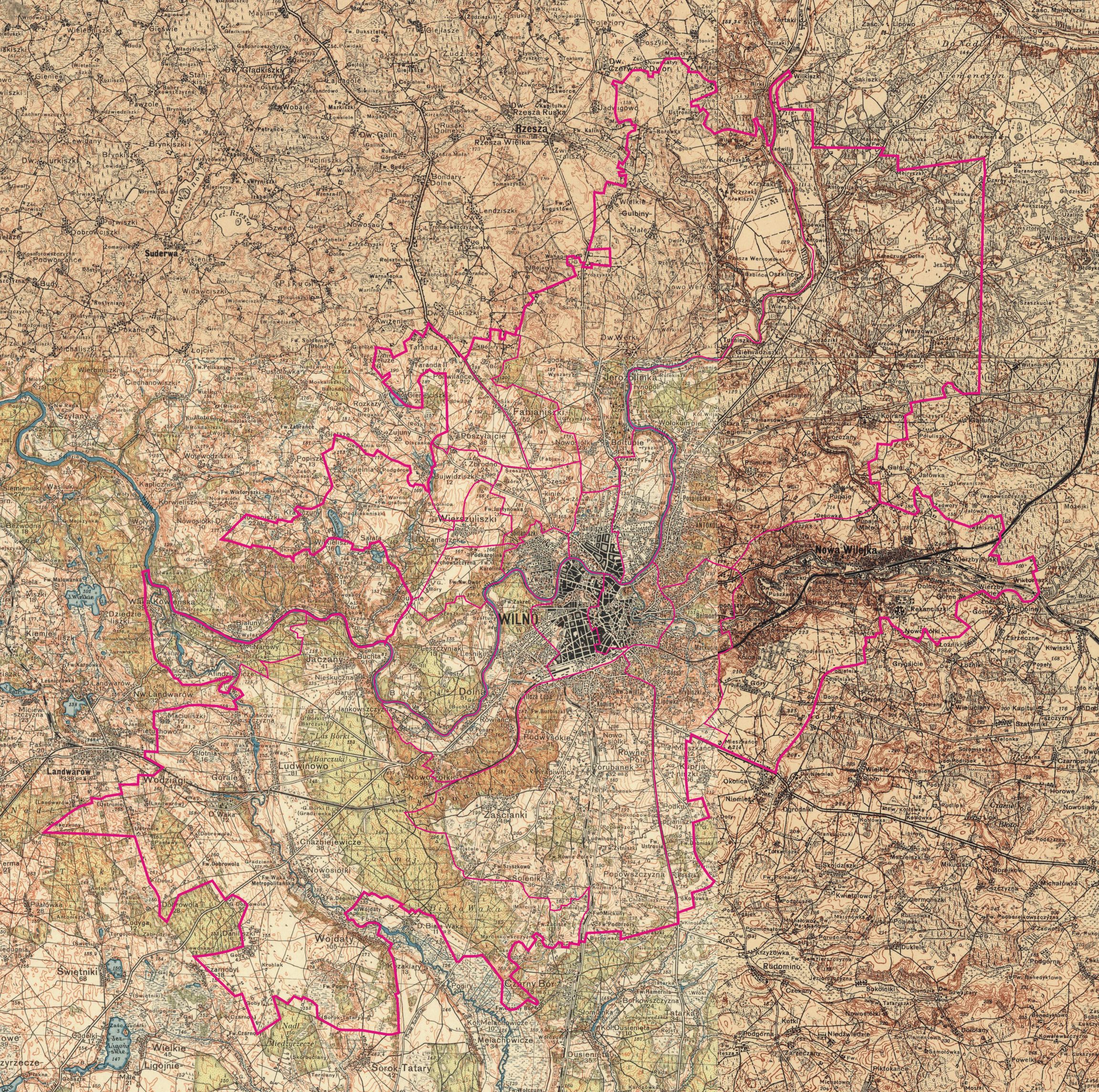 Map of Wilno/Vilnius (Polish WIG map, 1:100 000, 1928-35) with modern district borders